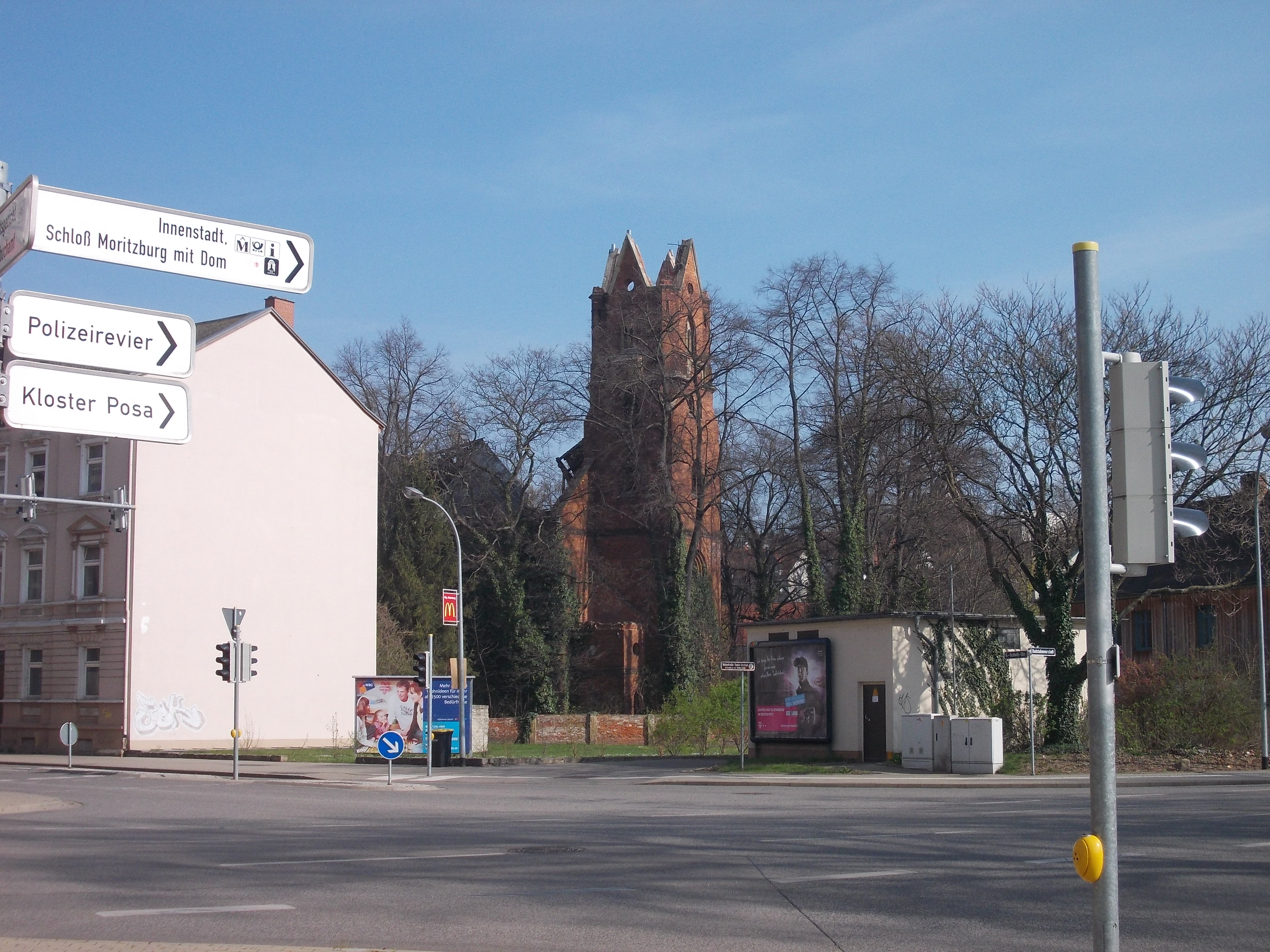 Ruins of St. Nicholas' Church in zeitz (district: Burgenlandkreis, Saxony-Anhalt)